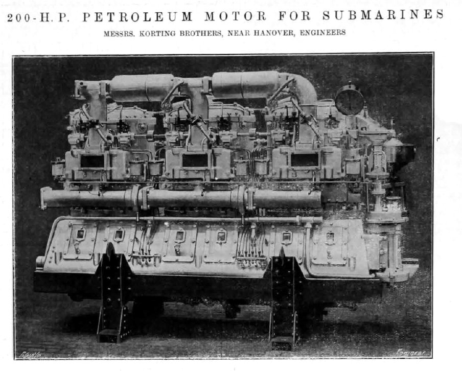 This is a picture of the Korting submarine engine taken from The Engineer magazine of August 1906. It is rated at 200bhp at 500rpm, maximum speed 650rpm. It is a 2-stroke with crankcase compression running on paraffin, and has electric heaters incorporated so it does not have to be started on petrol.